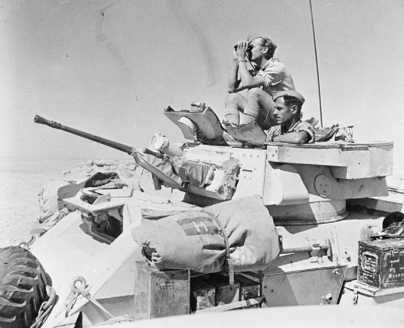 The British Army in North Africa 1942 A Humber Mk II armoured car of 4th Light Armoured Brigade (formerly 4th Armoured Brigade) on patrol in the Western Desert, 10 August 1942.